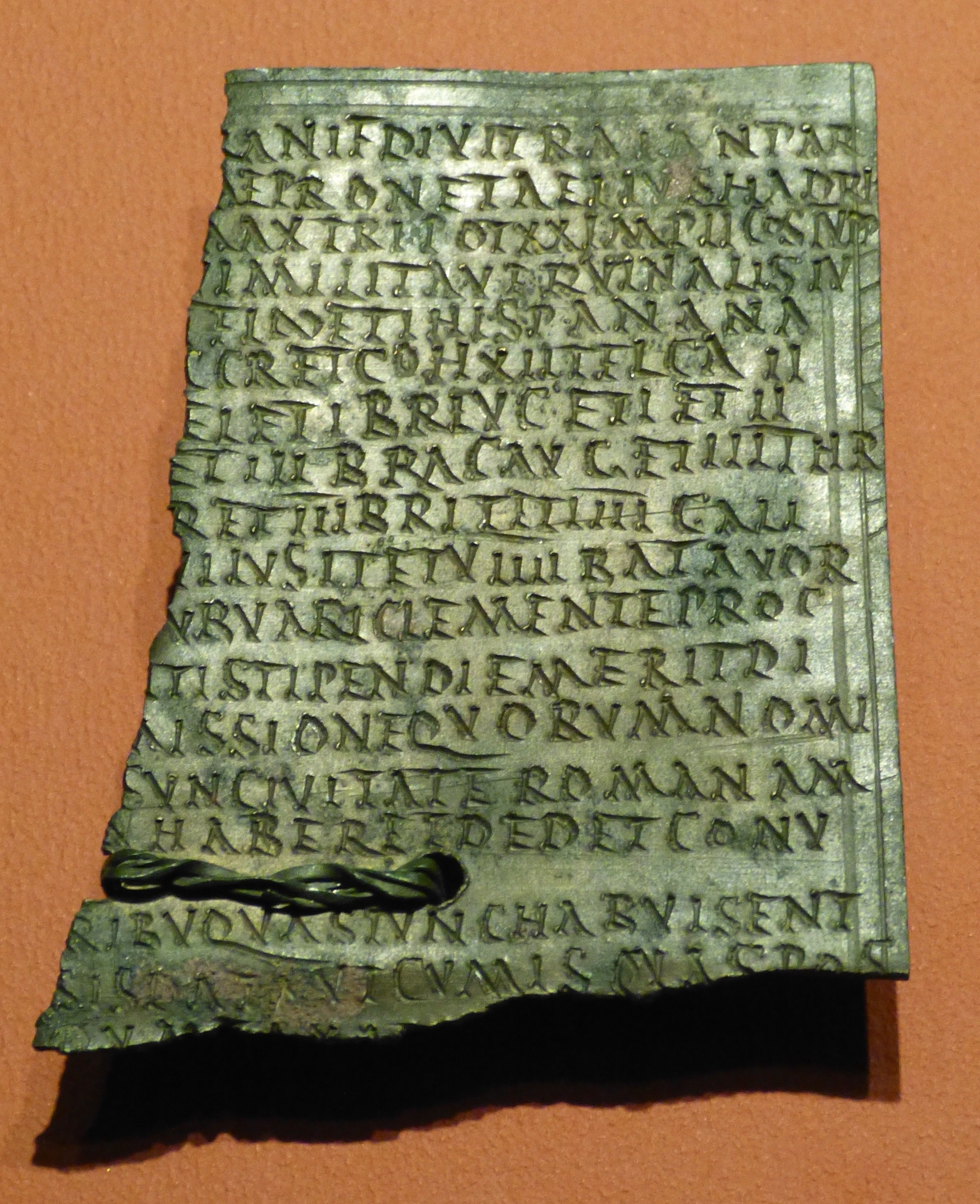 Straubing ( Lower Bavaria ). Gäubodenmuseum: Fragment of an ancient Roman military diploma, issued by emperor Antoninus Pius in 157 AD. Found in the western castell. CIL XVI 183 = AE 1953, 115 = AE 1959, 105: [Imp(erator) Caes(ar) divi Hadriani f(ilius) divi Traiani ---] / [equitibus et peditibus qui militaverunt in alis IV quae appellantur --- et coh(ortibus) XIII ---] et VI[III Batav(orum) et su]nt in Ra(e)tia su[b Vario Clemente] / pro(curatore) XXV sti(pen)diis emeritis dim[issis honesta mis]/sione quo(r)um nomina sub[scripta sunt civi]/tatem Romanam qui eor[um non haberent] / dedit et conubium cum uxor[ibus quas tunc ha]/buissent cum est civitas [iis data aut cum] / iis quas postea duxissent d[umtaxat singu]/lis [ // [Imp(erator) Caes(ar) divi Had]riani f(ilius) divi Traiani Par/[thici nep(os) divi Nerv]ae prone(pos) T(itus) Aelius Hadri/[anus Antoninus Aug(ustus) Pius pont(ifex)] max(imus) tri(bunicia) pot(estate) XX imp(erator) II co(n)s(ul) IV p(ater) p(atriae) / [equit(ibus) et ped(itibus) q]ui militaveru(nt) in alis IV / [quae appell(antur) I]I Fl(avia) oo(miliaria) et I Hisp(anorum) A(uria)na / [et I Fl(avia) Geme(lliana) et I sin] (ularium) c(ivium) R(omanorum) et coh(ortibus) XII I Fl(avia) Ca /[athen(orum) oo(miliaria) sag(ittaria)] {EL} et I Br uc(orum) et I et II / [Raet(orum) et II Aquit(anorum)] et III Brac(ar)aug(ustanorum) et III Thr(acum) / [vet(erana) et III Thr(acum) c(ivium)] R(omanorum) et III Brit(annorum) et IIII Gall(orum) / [et V Bracaraug(ustanorum) et] VI Lusit(anorum) et VIIII Batavor(um) / [oo(miliaria?) et sunt in Raetia s]ub Vari(o) Clemente proc(uratore) / [quinque et vigi]nti stipendi(is) emerit(is) di/[mis(sis) honesta] missione quorum nomi/[na subscripta] sun(t) civitate(m) Romanam / [qui eorum no]n habere(n)t ded(it) et conu/[bium cum uxo]ribus quas tunc habuis(s)ent / [cum est civit]as i(i)s dat(a) aut cum i(i)s quas pos/[tea duxissent] dum[t]axat [singulis